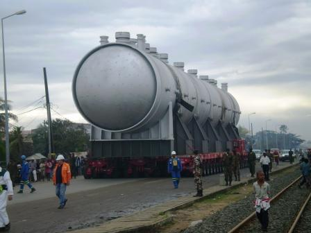 Autoclave entering Madagascar. 2008